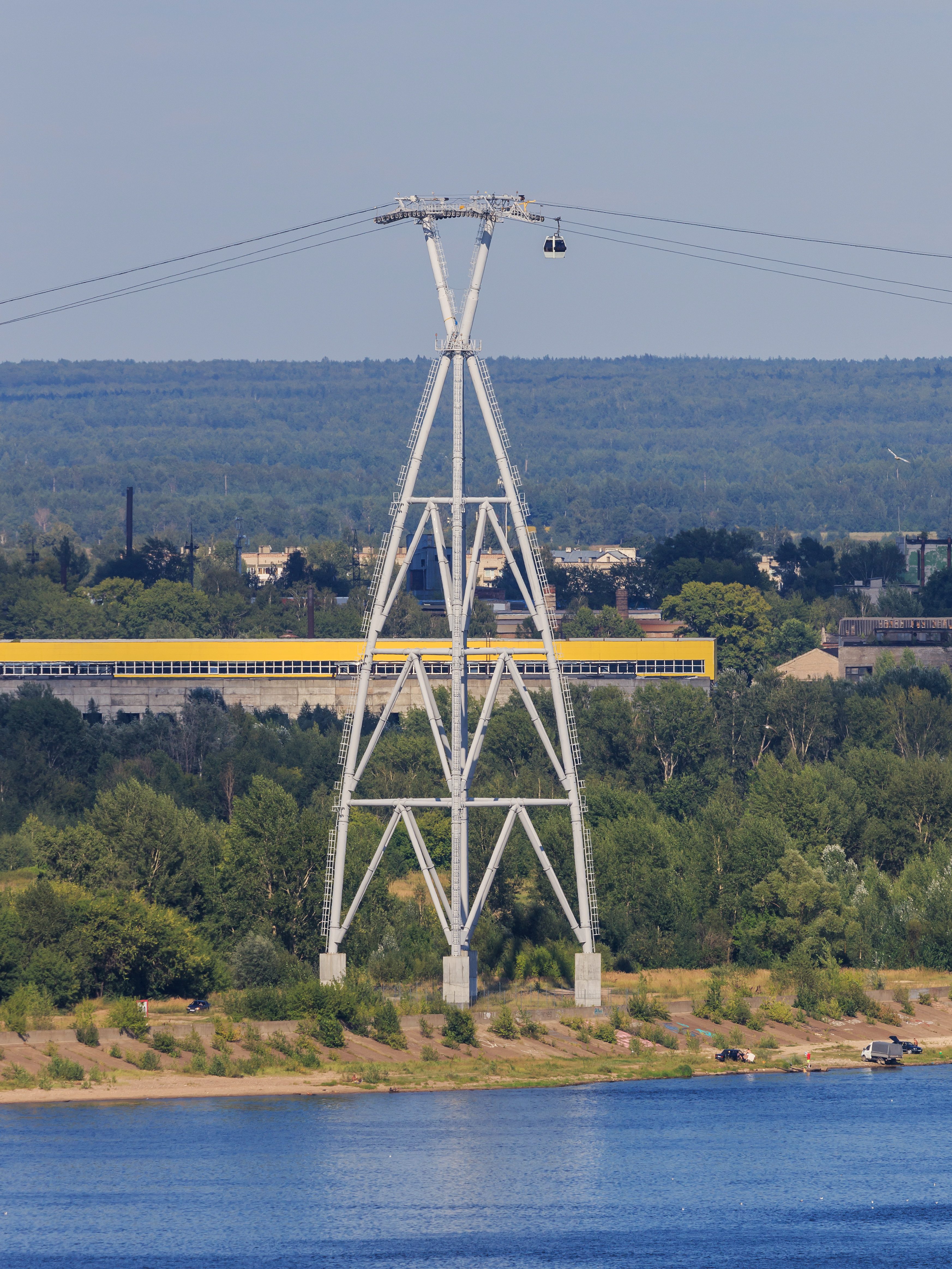 Nizhny Novgorod–Bor Volga cableway. Remote view of a pylon. Bor, Russia.